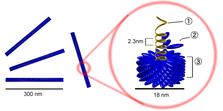 Schematic model of Tobacco mosaic virus. nucleic acid capsomer (protomer) capsid